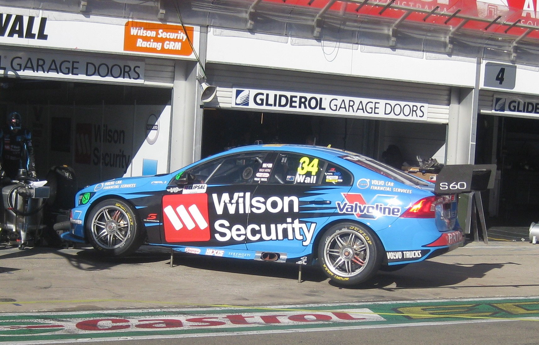 The Volvo S60 of David Wall at the 2015 Clipsal 500 Adelaide